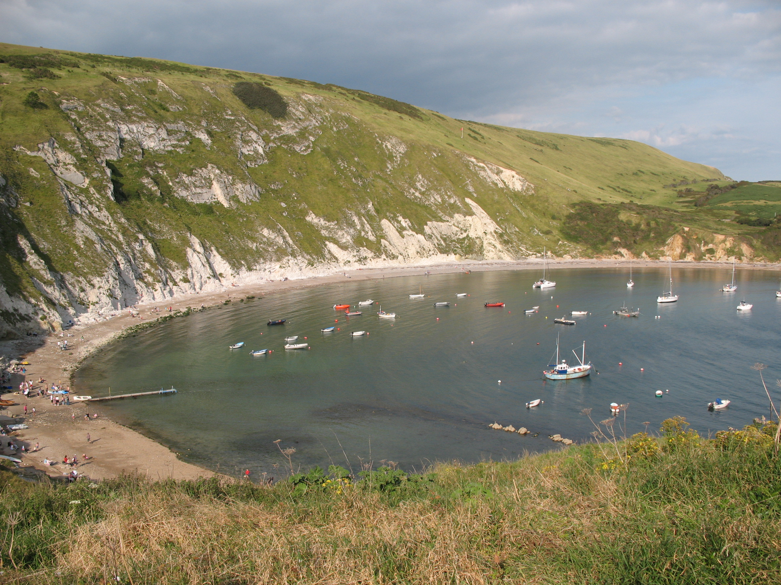 Lulworth Cove Summer 2007 Paste 09:28, 19 October 2007 (UTC)